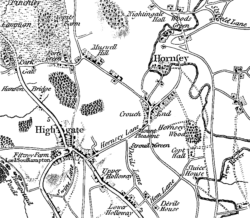 The context of Stroud Green, London, in its immediate region (1786), taken from Fifteen Miles Round London 1786 (first edition) by John Cary. See the Wikipedia page on Stroud Green for more information about the area.